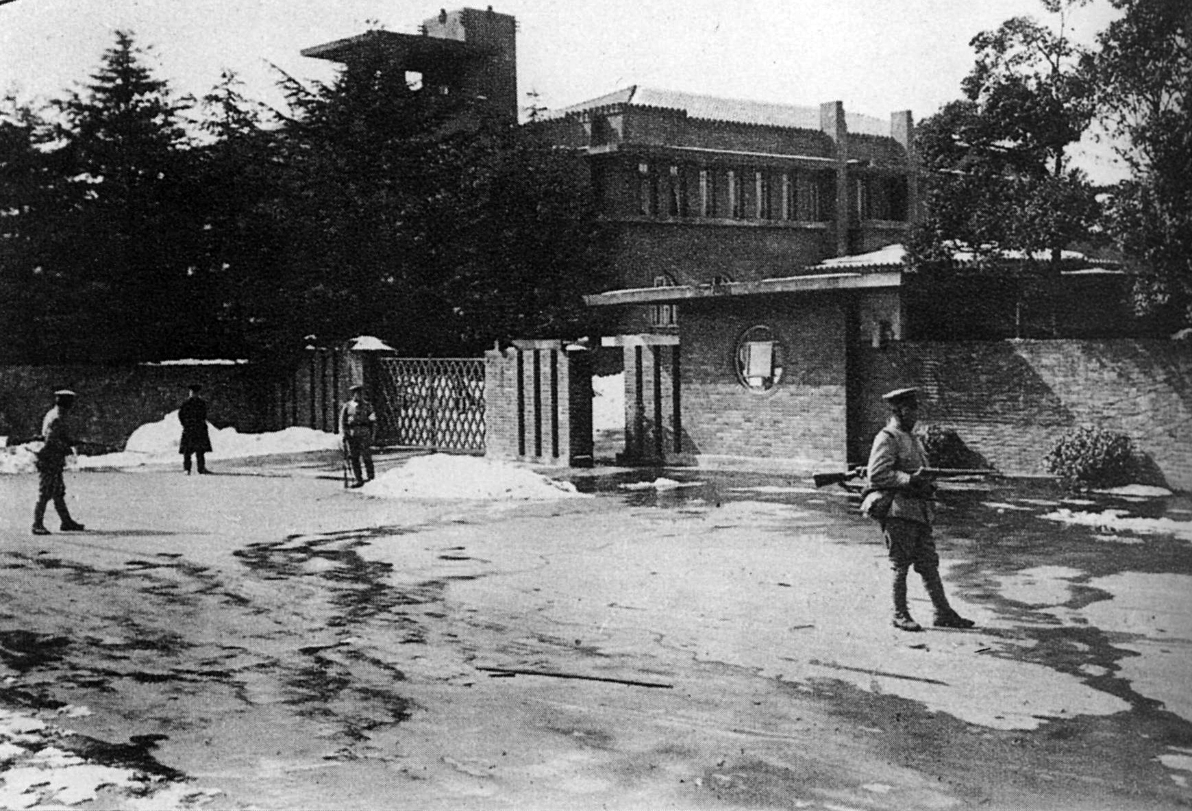 Soldiers outside of the Japanese Prime Minister' Residence during the 2/26 Incident.